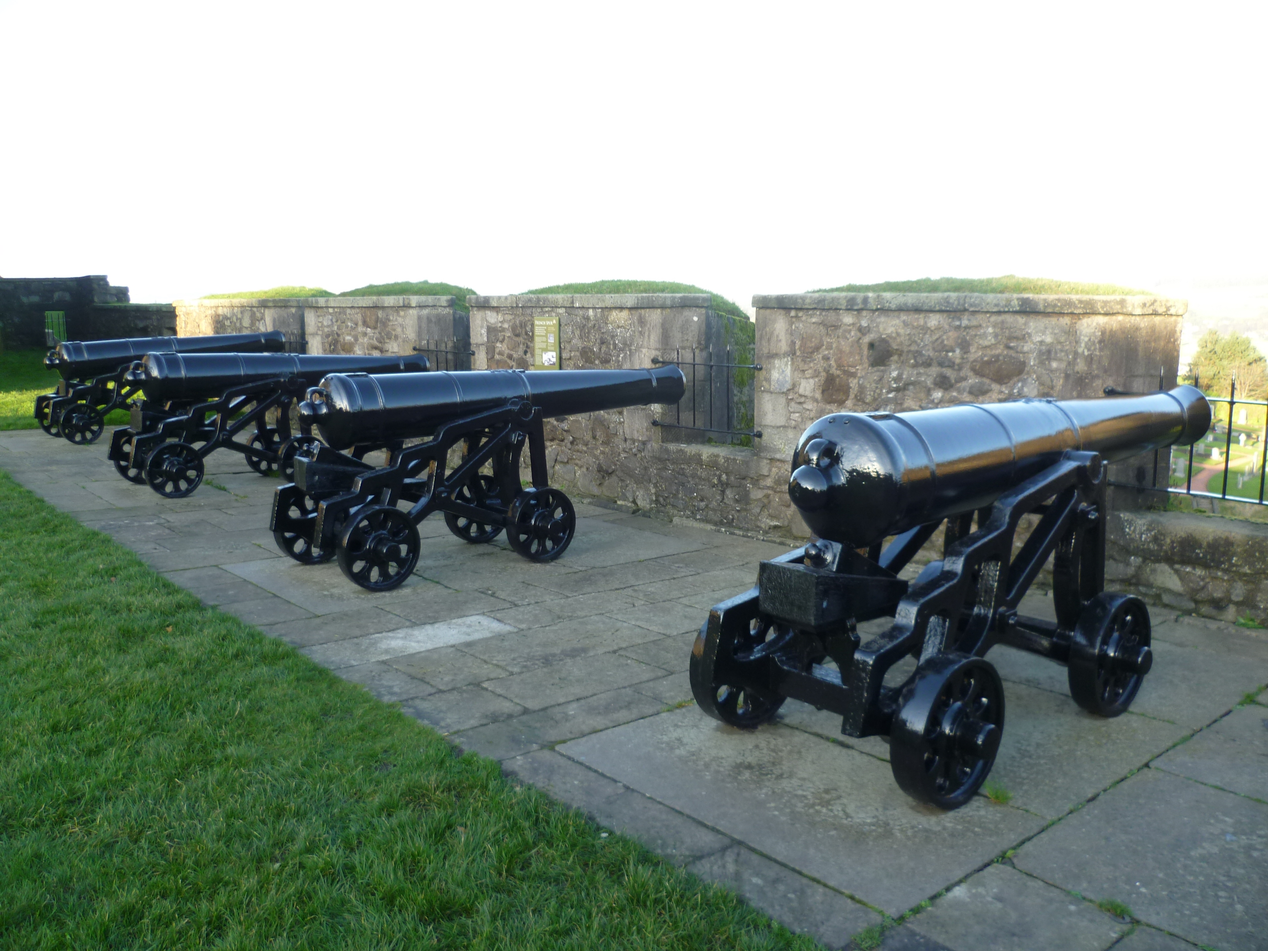 Cannon at the French Spur, Stirling Castle